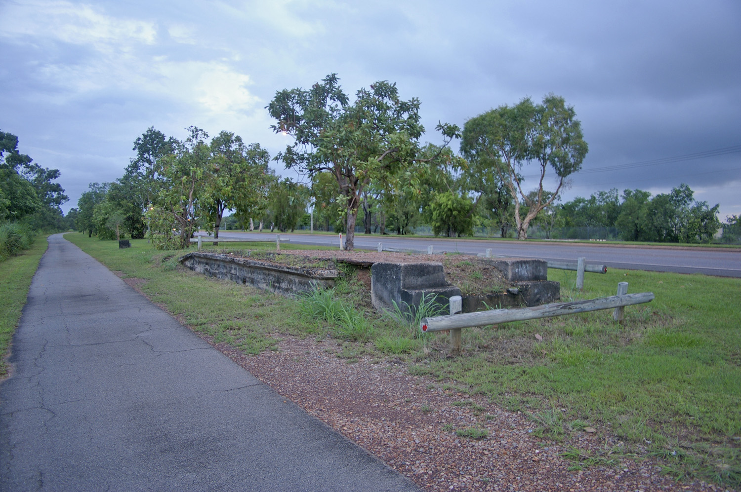 Darwin (Palmerston) to Pine Creek railway. The old track was located where the current bike track is currently located.